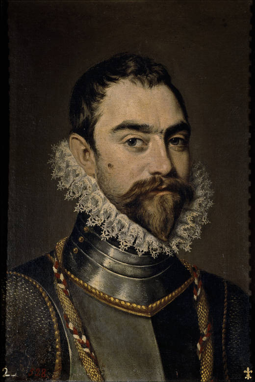 Colonel Francisco Verdugo. Oil on canvas